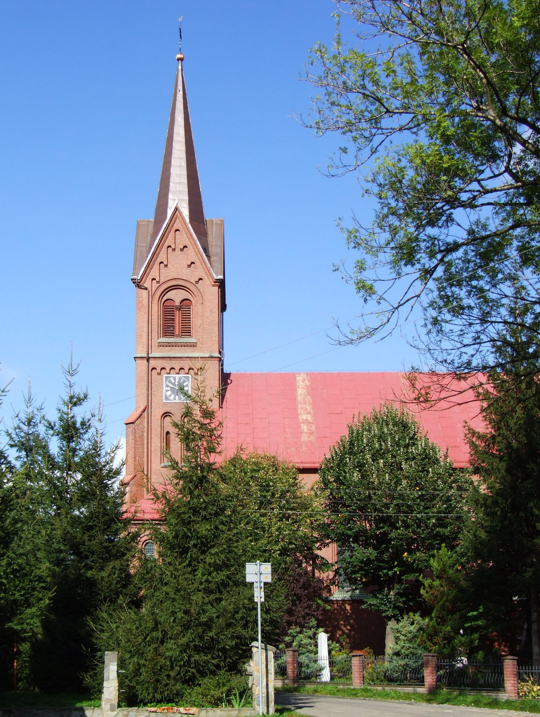 Saint Bartholomew church in Jarnołtówek (Arnoldsdorf), Poland